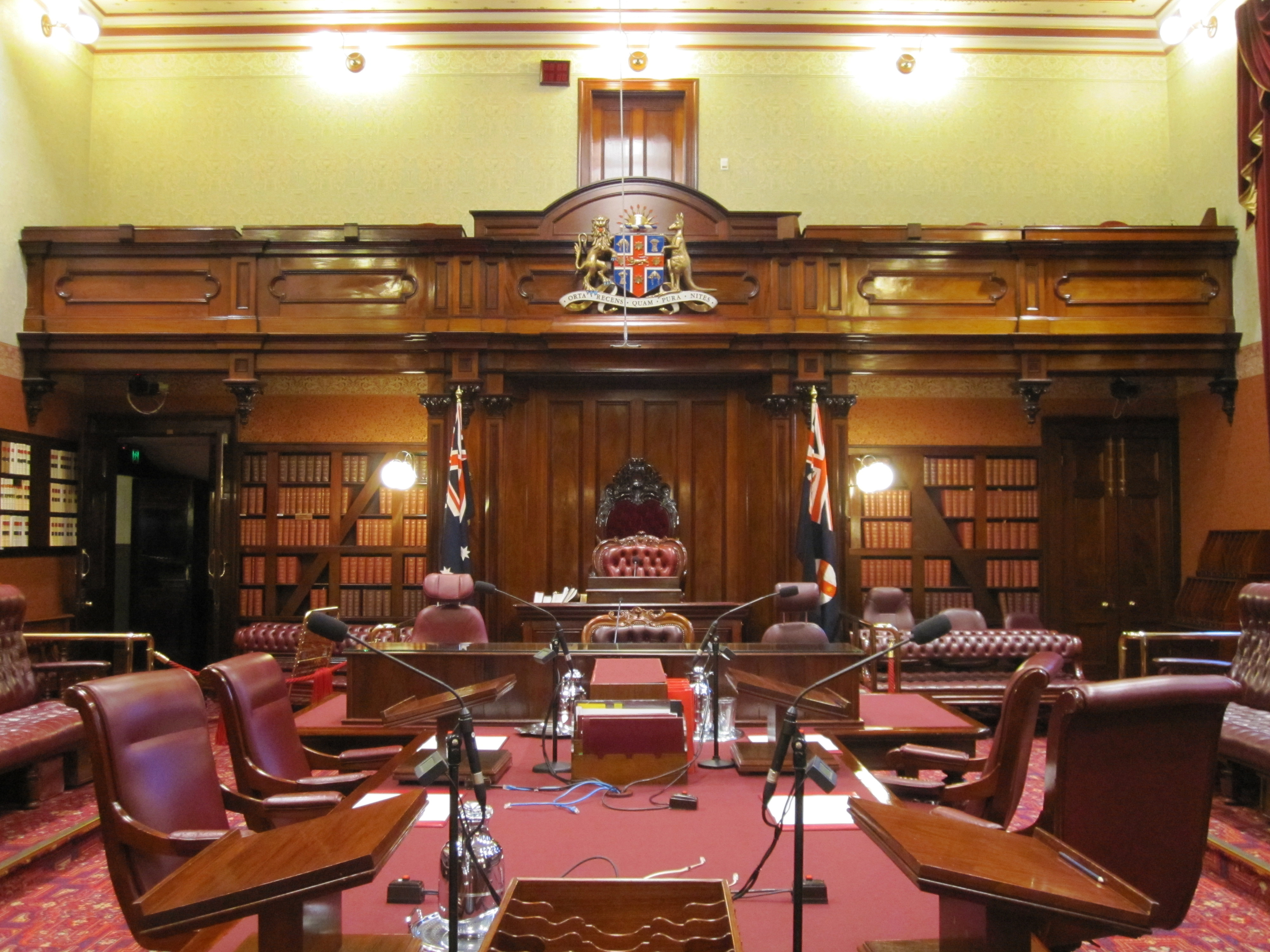 the legislative council chamber of the Parliament of New South Wales